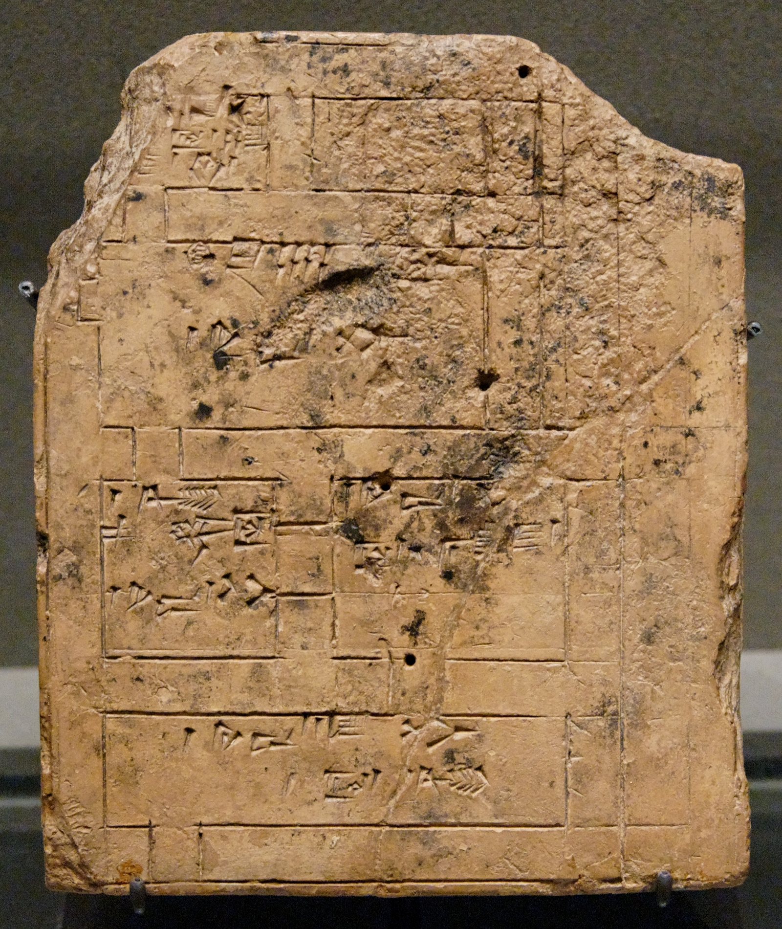 Plans of a six-room building, a sanctuary or a private house. Clay, late 3rd millennium BC. From Telloh, ancient Girsu.